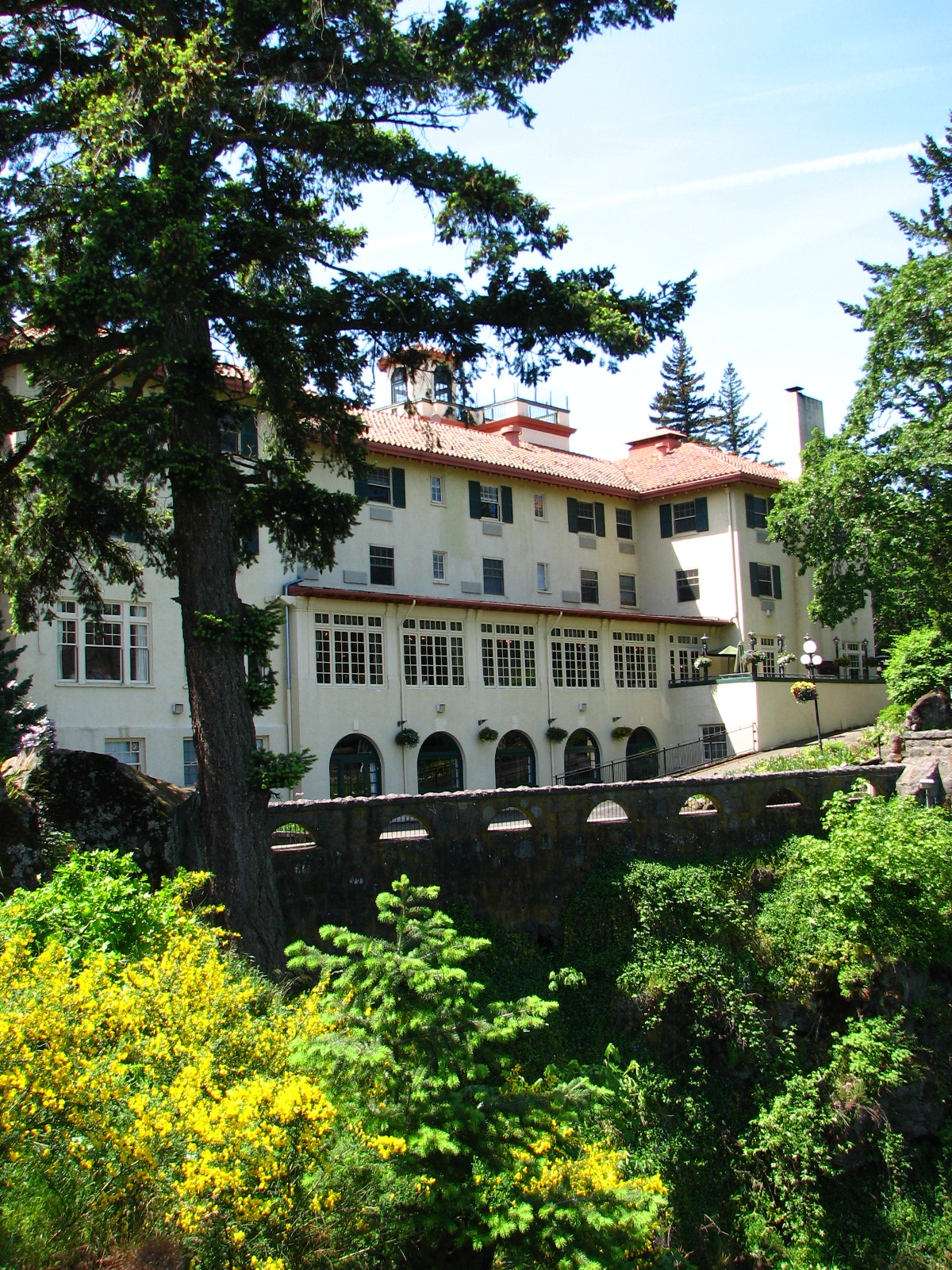 Rear view of the Columbia Gorge Hotel at 4000 Westcliff Drive in Hood River, Oregon, United States, which is listed on the US National Register of Historic Places.